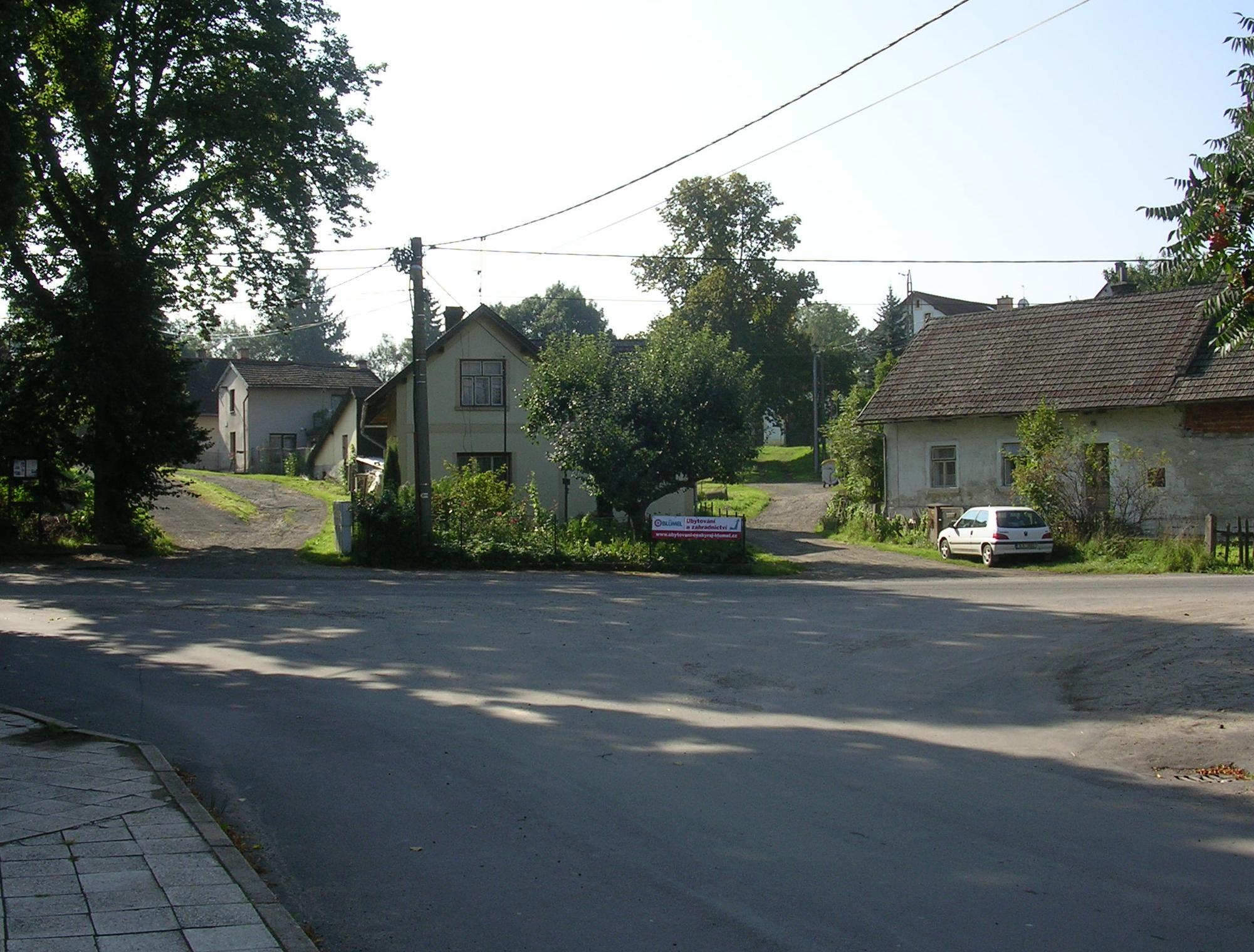 Všeň-Ploukonice, Semily District, Liberec Region, the Czech Republic.